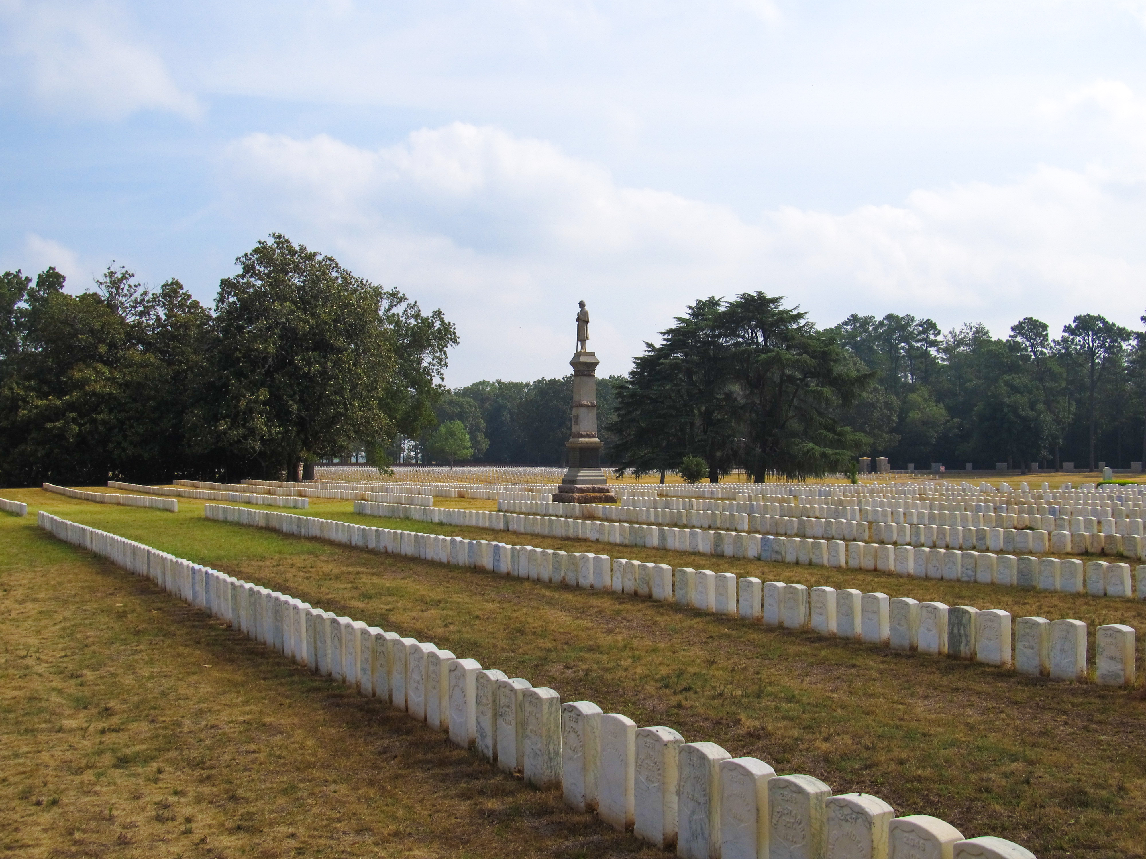 The Andersonville National Historic Site, located near Andersonville, Georgia, preserves the former Camp Sumter (also known as Andersonville Prison), a Confederate prisoner-of-war camp during the American Civil War. Most of the site lies in southwestern Macon County, adjacent to the east side of the town of Andersonville. As well as the former prison, the site also contains the Andersonville National Cemetery and the National Prisoner of War Museum. Of the approximately 45,000 Union prisoners held at Camp Sumter during the war, 12,913 died due to starvation, malnutrition, diarrhea, disease, abuse and blunt weapon executions from guards. The cemetery is the final resting place for the Union prisoners who died while being held at Camp Sumter/Andersonville as POWs. The prisoners' burial ground at Camp Sumter has been made a national cemetery. It contains 13,714 graves, of which 921 are marked "unknown". As a National Cemetery, it is currently an honored burial place for more recent veterans and their dependents.